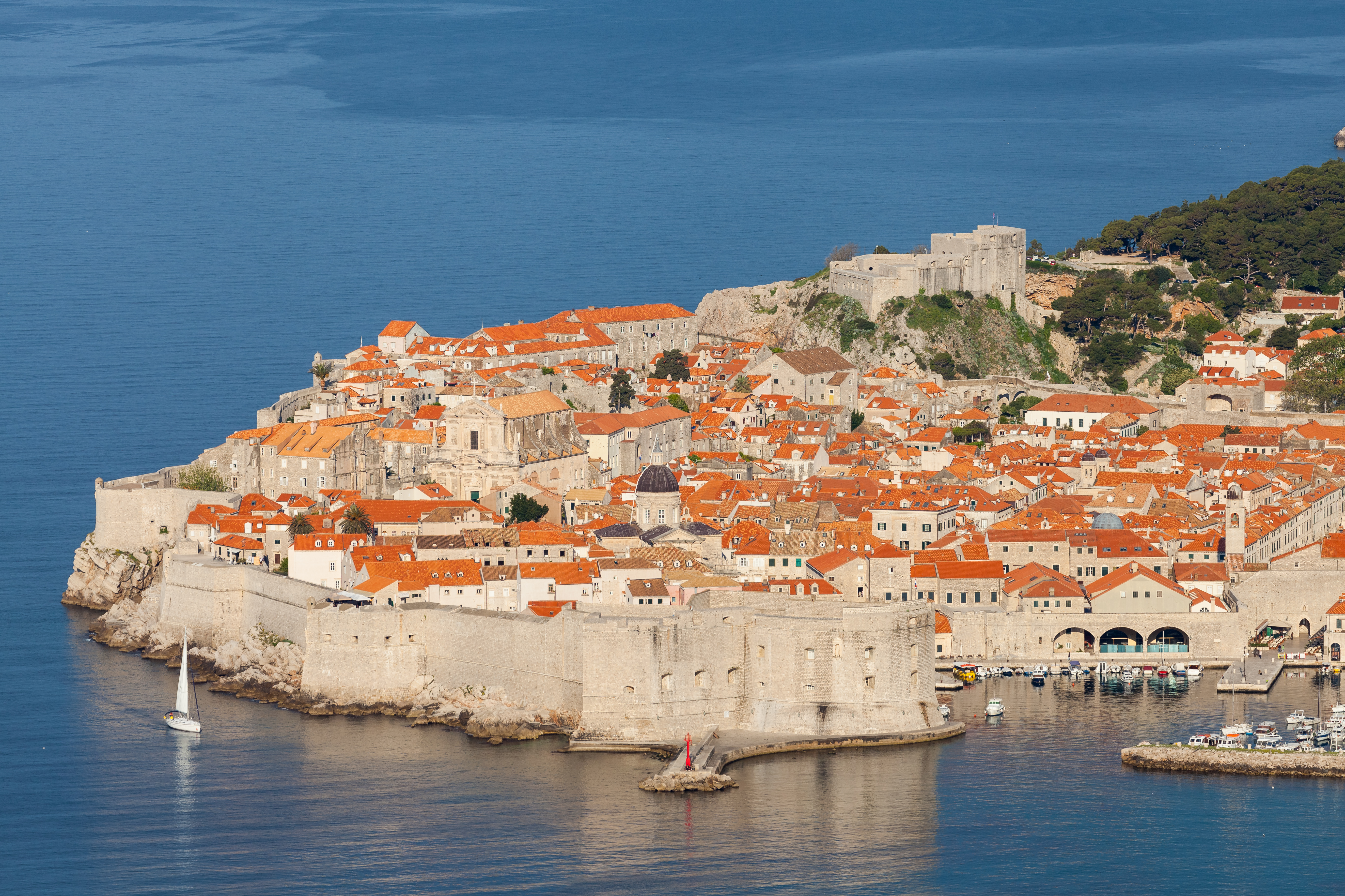 Panoramic view of the old city of Dubrovnik, Croatia